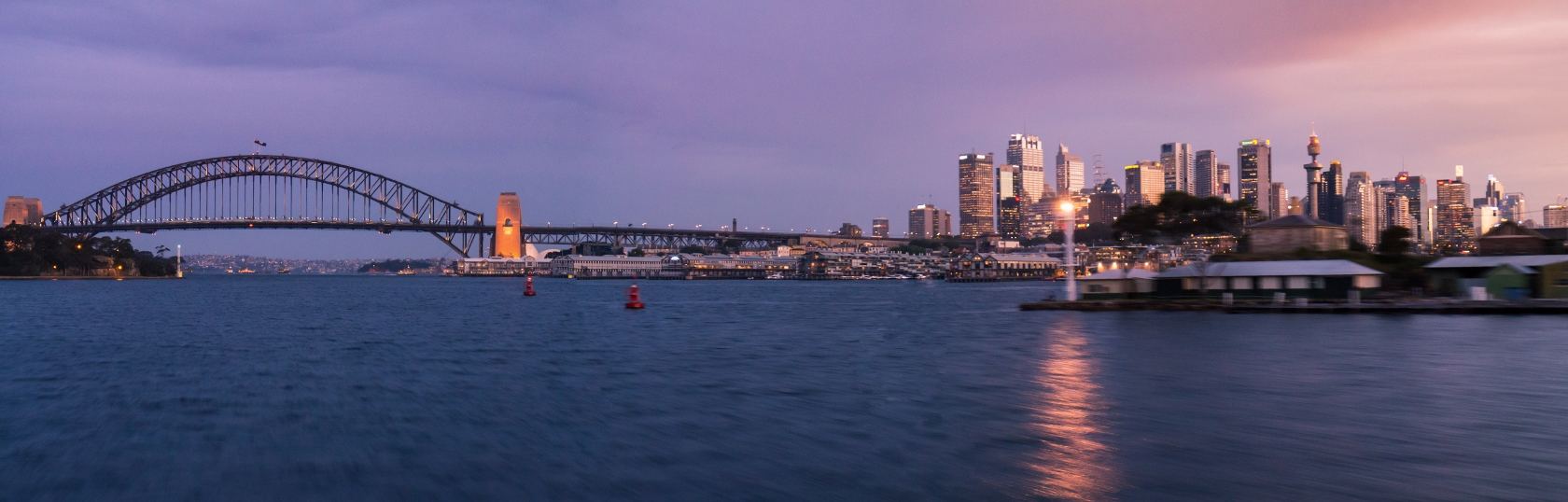 The Sydney skyline at twilight